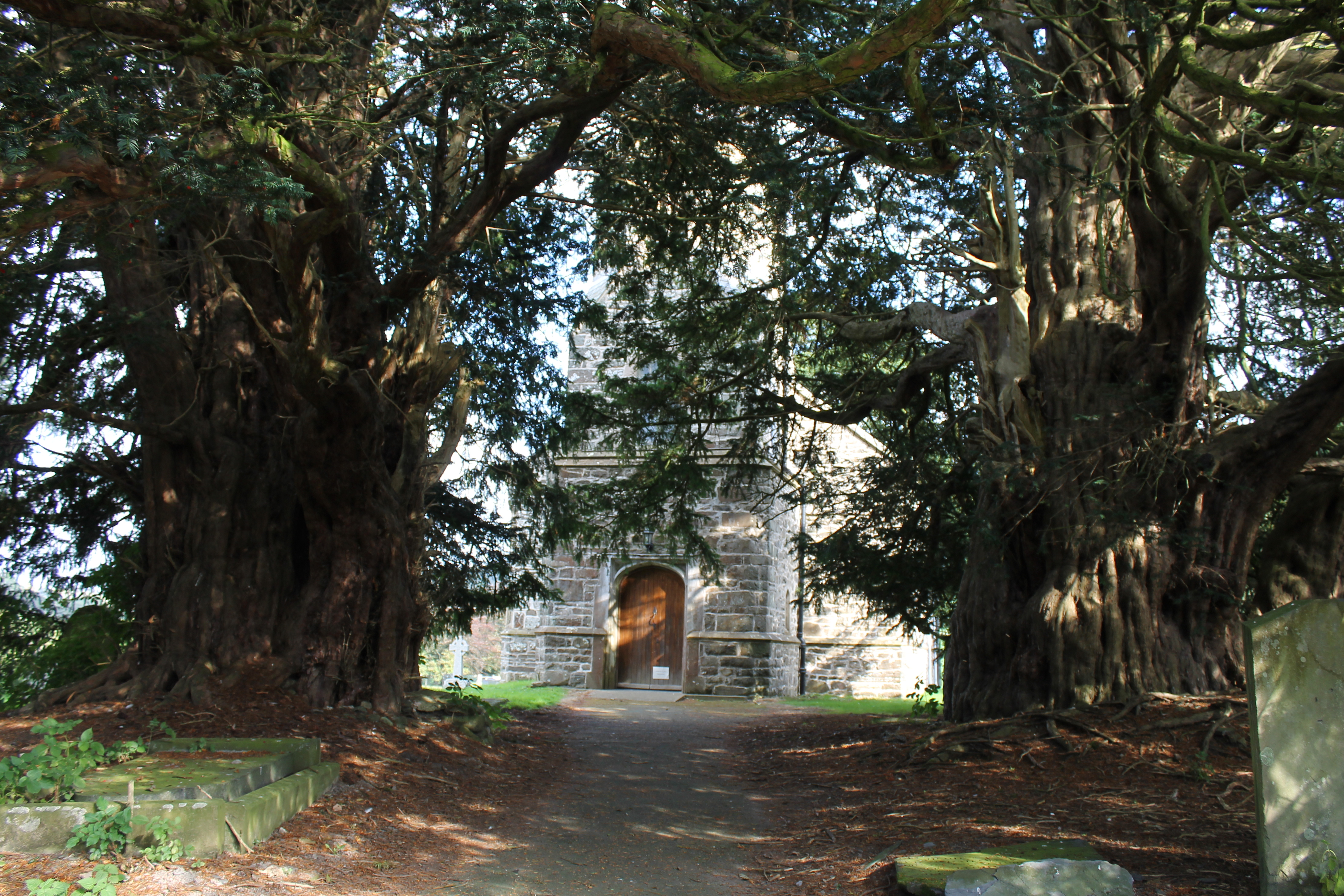 The Church of St Garmon, Llanarmon Dyffryn Ceiriog, Wrexham. Grade II registered building. Completely rebuilt in 1846 by Thomas Jones, architect. Restored in 1986. Originally a Celtic Church.